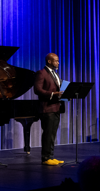 Marc Bamuthi Joseph in REACH spoken word performance at the John F. Kennedy Center for the Performing Arts in Washington, D.C